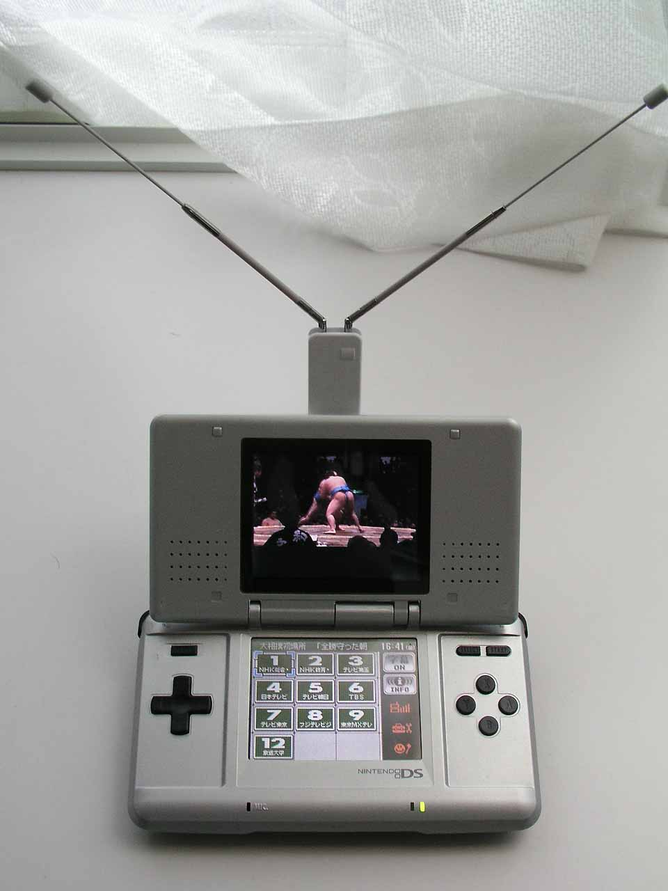 Nintendo DS television tuner (DSTV), operated with Nintendo DS.